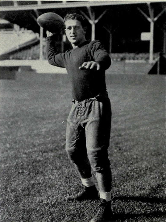 Photograph of Harry Newman This work is in the public domain because it was published in the United States between 1923 and 1963 and although there may or may not have been a copyright notice, the copyright was not renewed. Unless its author has been dead for the required period, it is copyrighted in the countries or areas that do not apply the rule of the shorter term for US works, such as Canada (50 pma), Mainland China (50 pma, not Hong Kong or Macao), Germany (70 pma), Mexico (100 pma), Switzerland (70 pma), and other countries with individual treaties. See Commons:Hirtle chart for further explanation. This work is in the public domain because it was published in the United States between 1923 and 1977 and without a copyright notice. Unless its author has been dead for several years, it is copyrighted in jurisdictions that do not apply the rule of the shorter term for US works, such as Canada (50 p.m.a.), Mainland China (50 p.m.a., not Hong Kong or Macao), Germany (70 p.m.a.), Mexico (100 p.m.a.), Switzerland (70 p.m.a.), and other countries with individual treaties. See this page for further explanation.